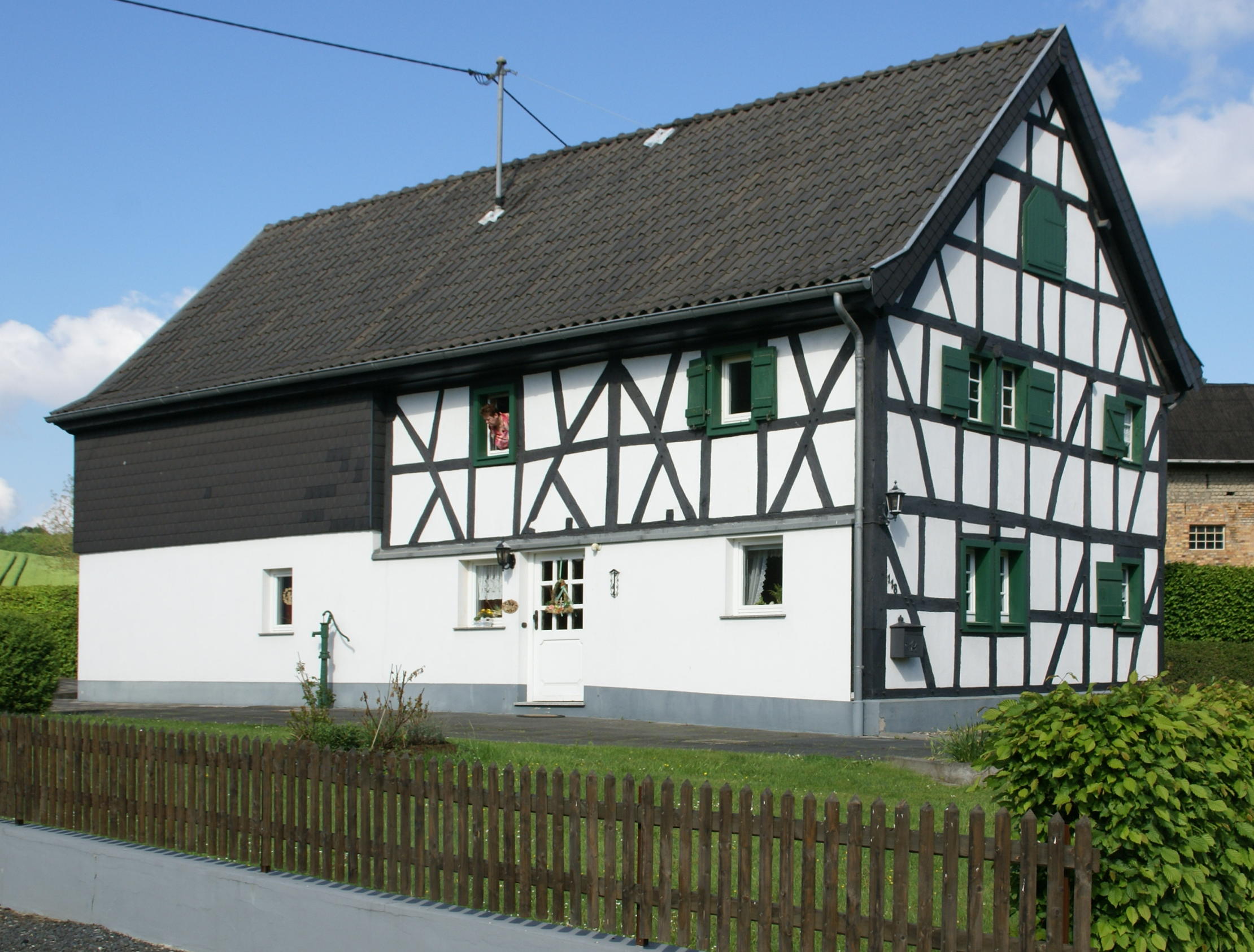 Half-timbered house in Nonnenberg, Nonnenberger Straße 118